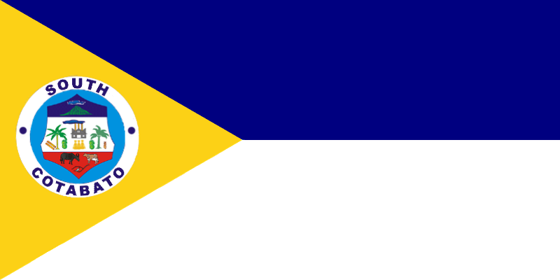 Digital depiction of Flag of South Cotabato